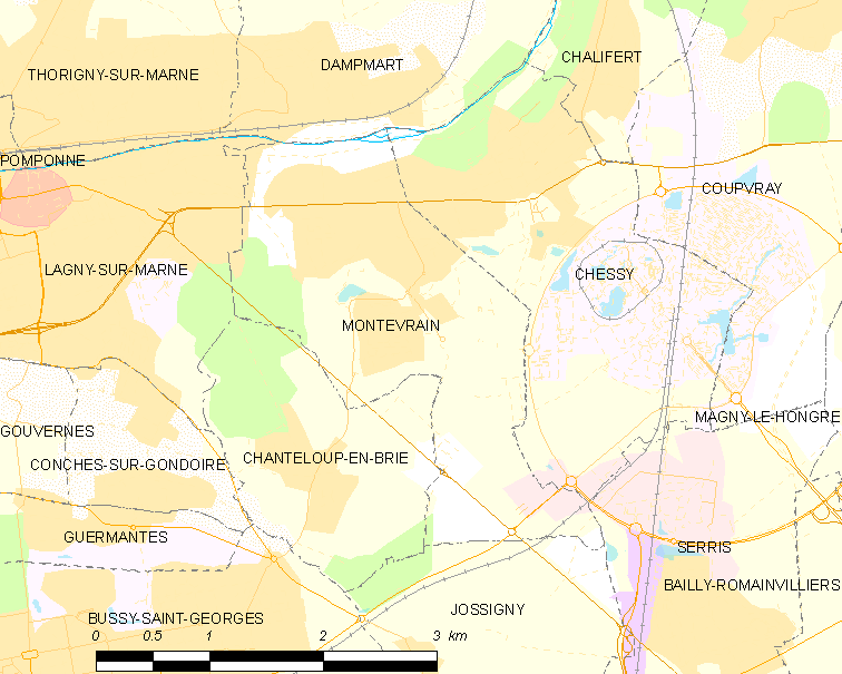 Map of French municipality Montévrain